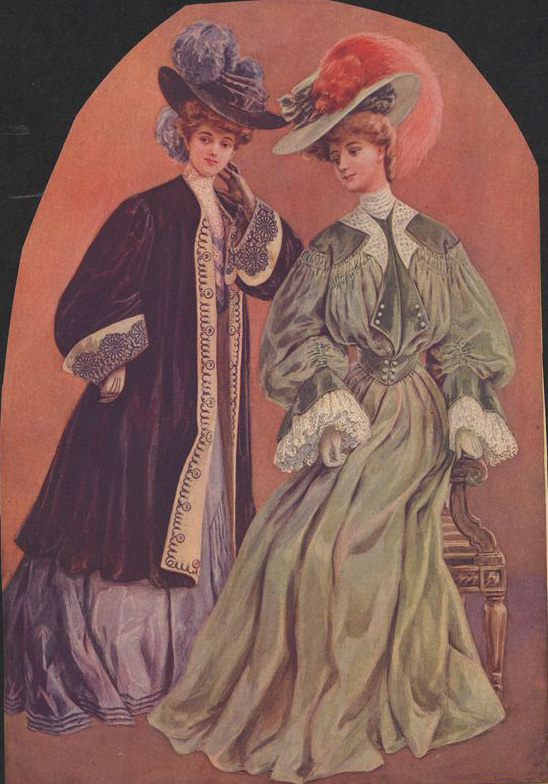 "Fashion plates of women wearing hats decorated with bird feathers, 1904. [electronic resource]" (Collected by Patty Munroe Catlow as a child. She was the daughter of photographer Ralph Munroe, and lived in Coconut Grove (Miami, Fla.). Collection of feathers for fashion led to the near extinction of wading birds in the Everglades.)